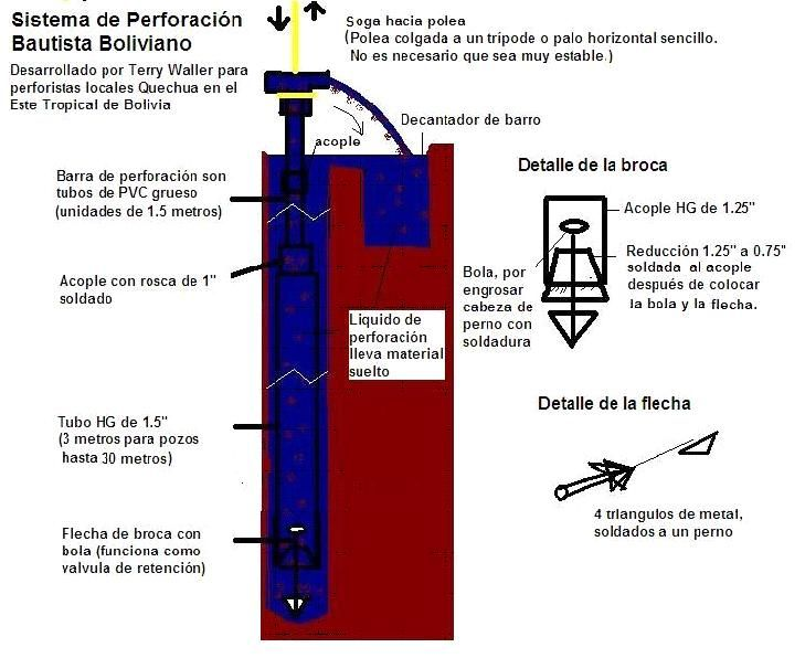 Principle of Baptist Manual well Drilling